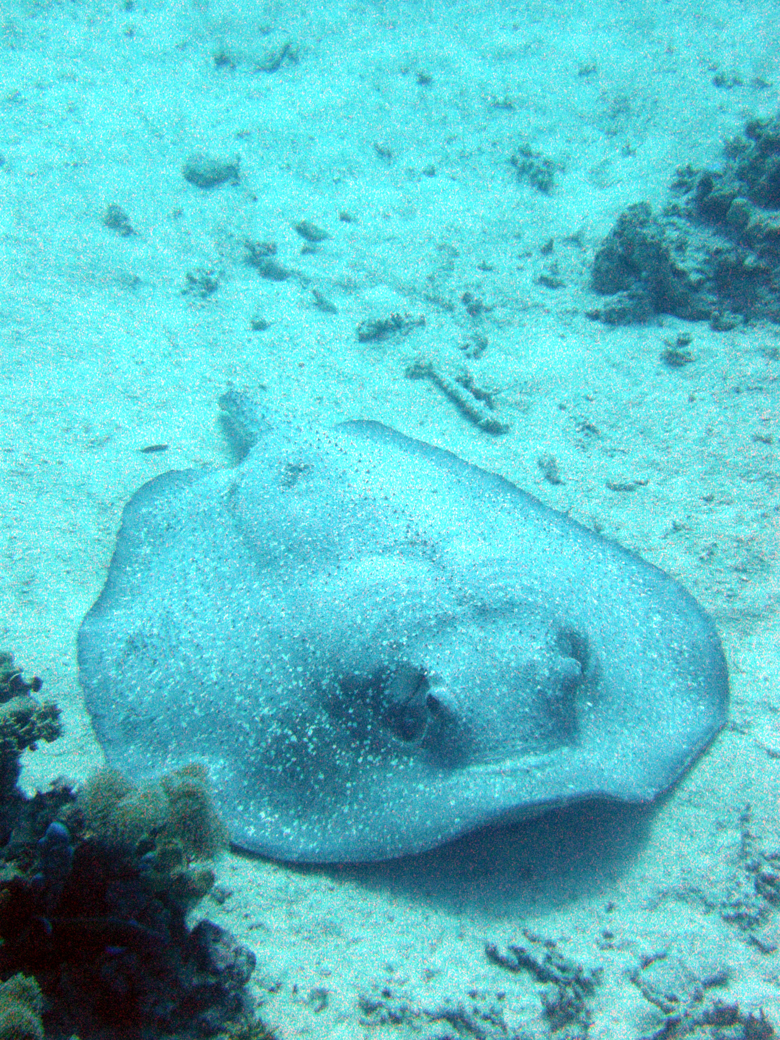 Porcupine ray (Urogymnus asperrimus) in the Red Sea